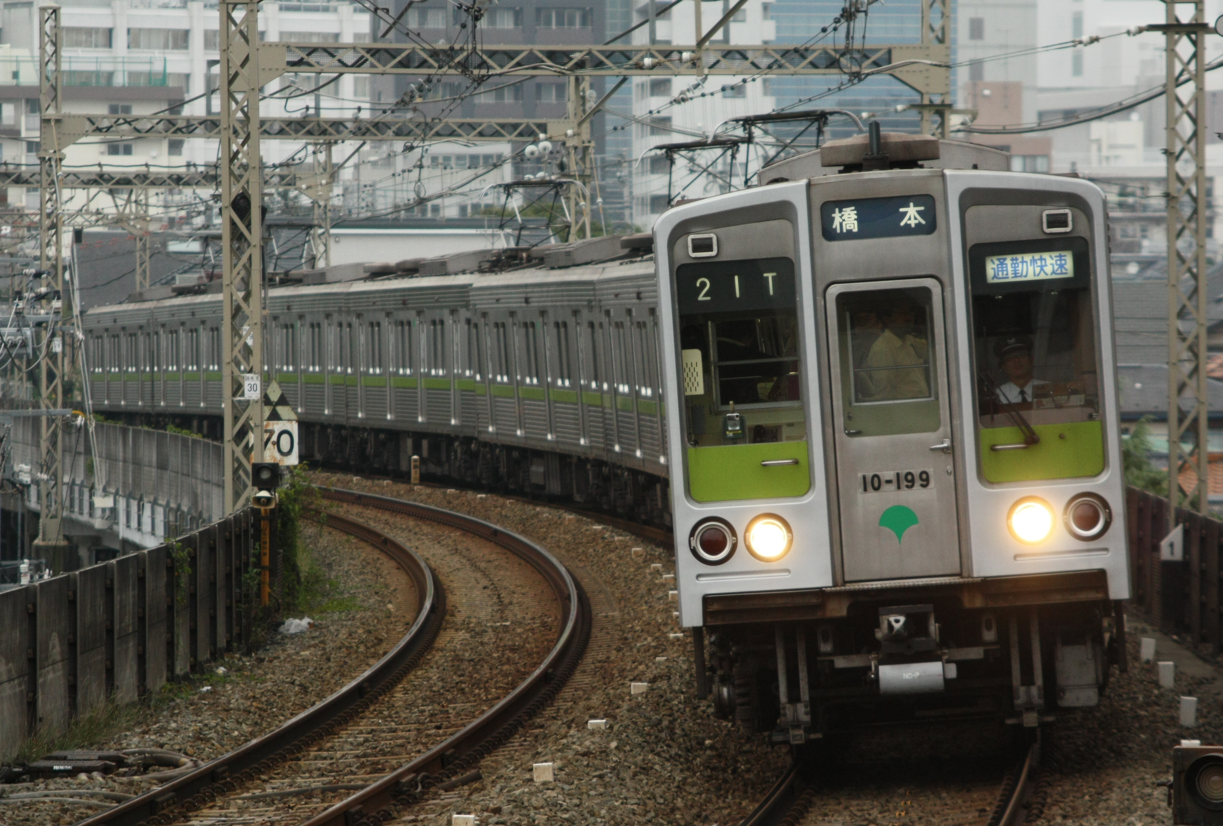 Toei 10-000 series EMU 3rd-batch set 10-190 at Keio-Tamagawa Station